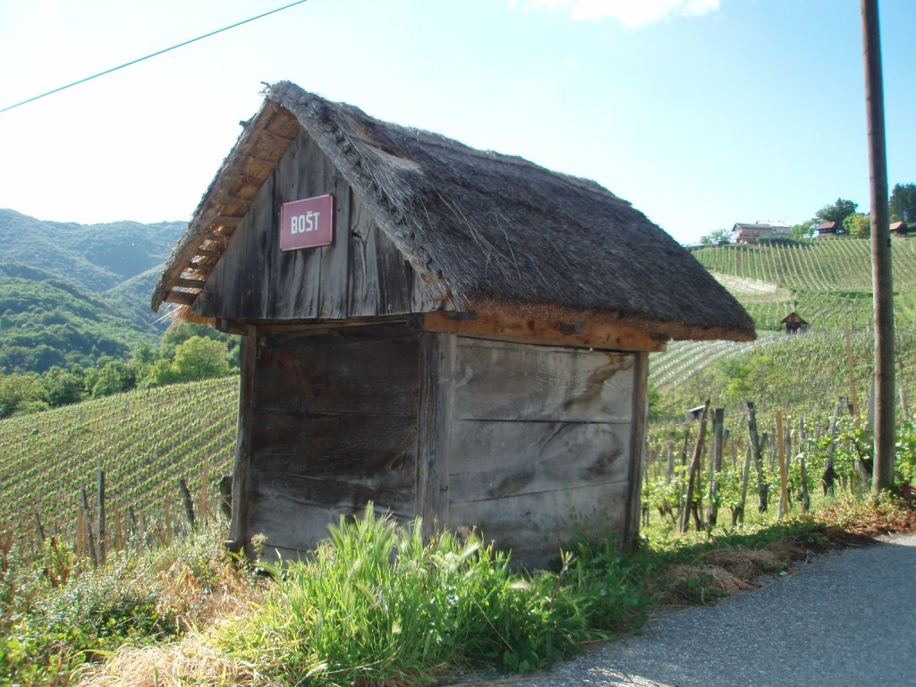 The least wineyard cottage in Slovenia, placed in Bizeljsko.